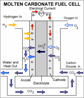 Schematic image of a molten carbonate fuel cell. From